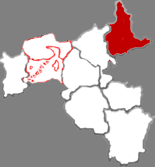 Location of Tianzhen county in Datong City, China